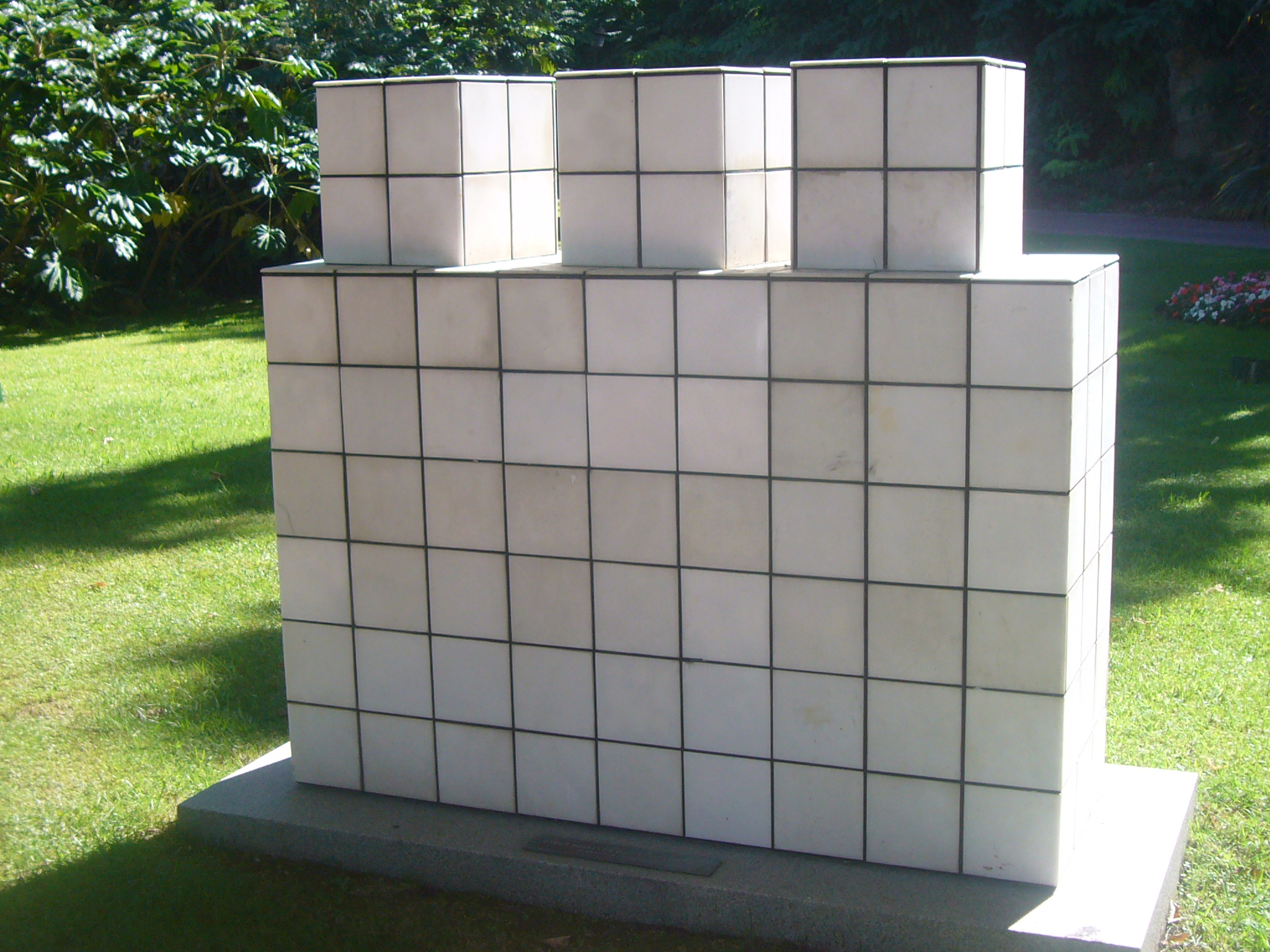 Sculptures in gardens of Palauet Albéniz. "Stèle pour les droits de l'homme" (Sculpture for the human rights) Sculptor: Jean-Pierre Raynaud (1990)